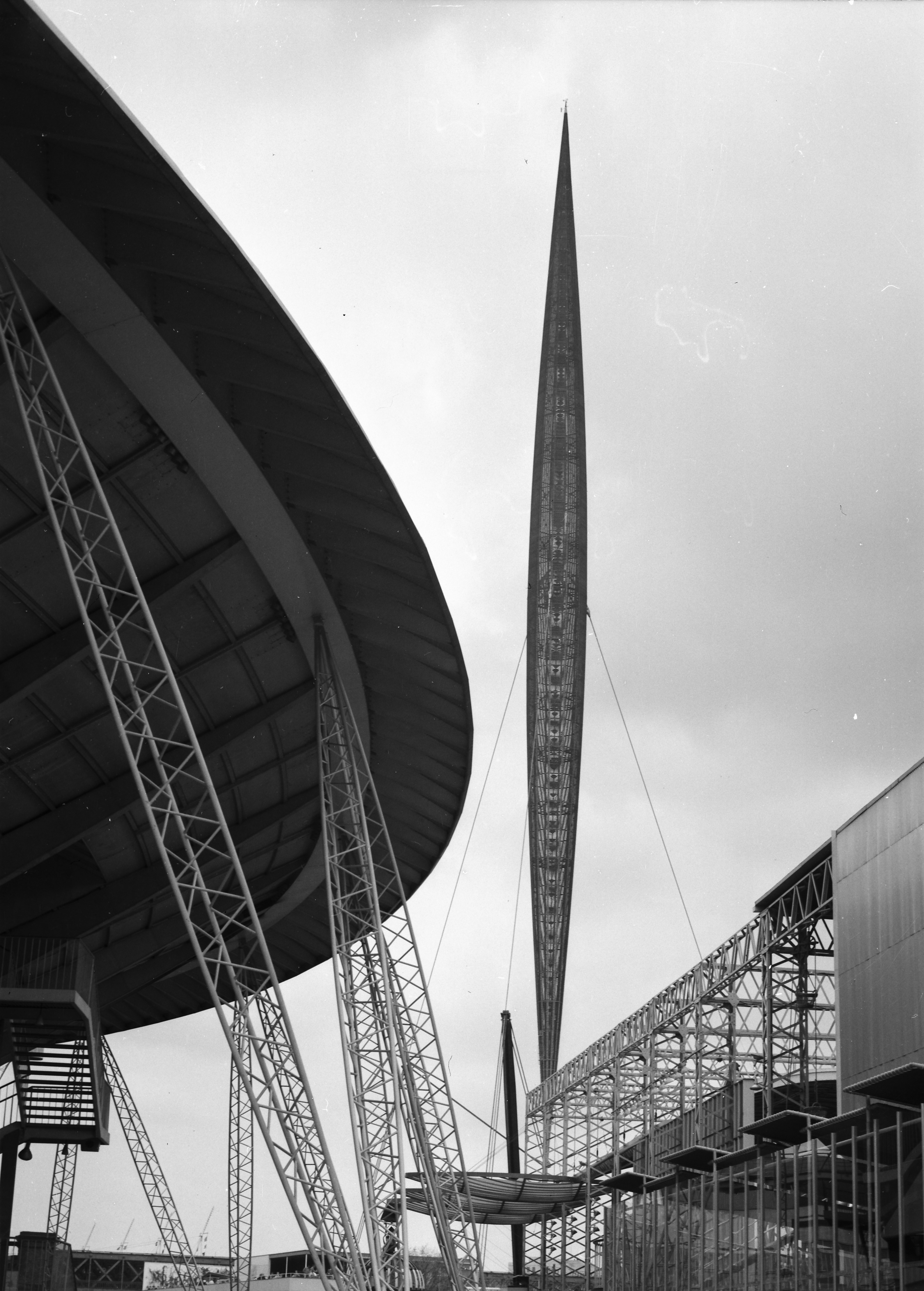 The Skylon at the Festival of Britain, 1951 BW Lee (1)